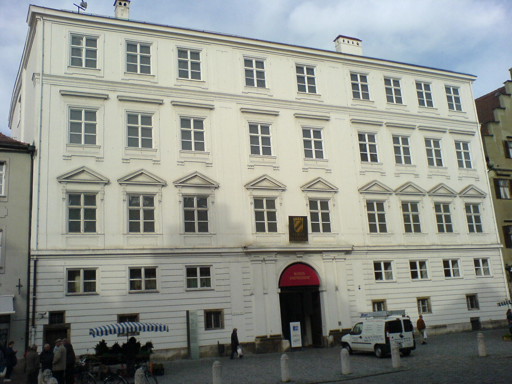 View of the city residency of Landshut, Germany